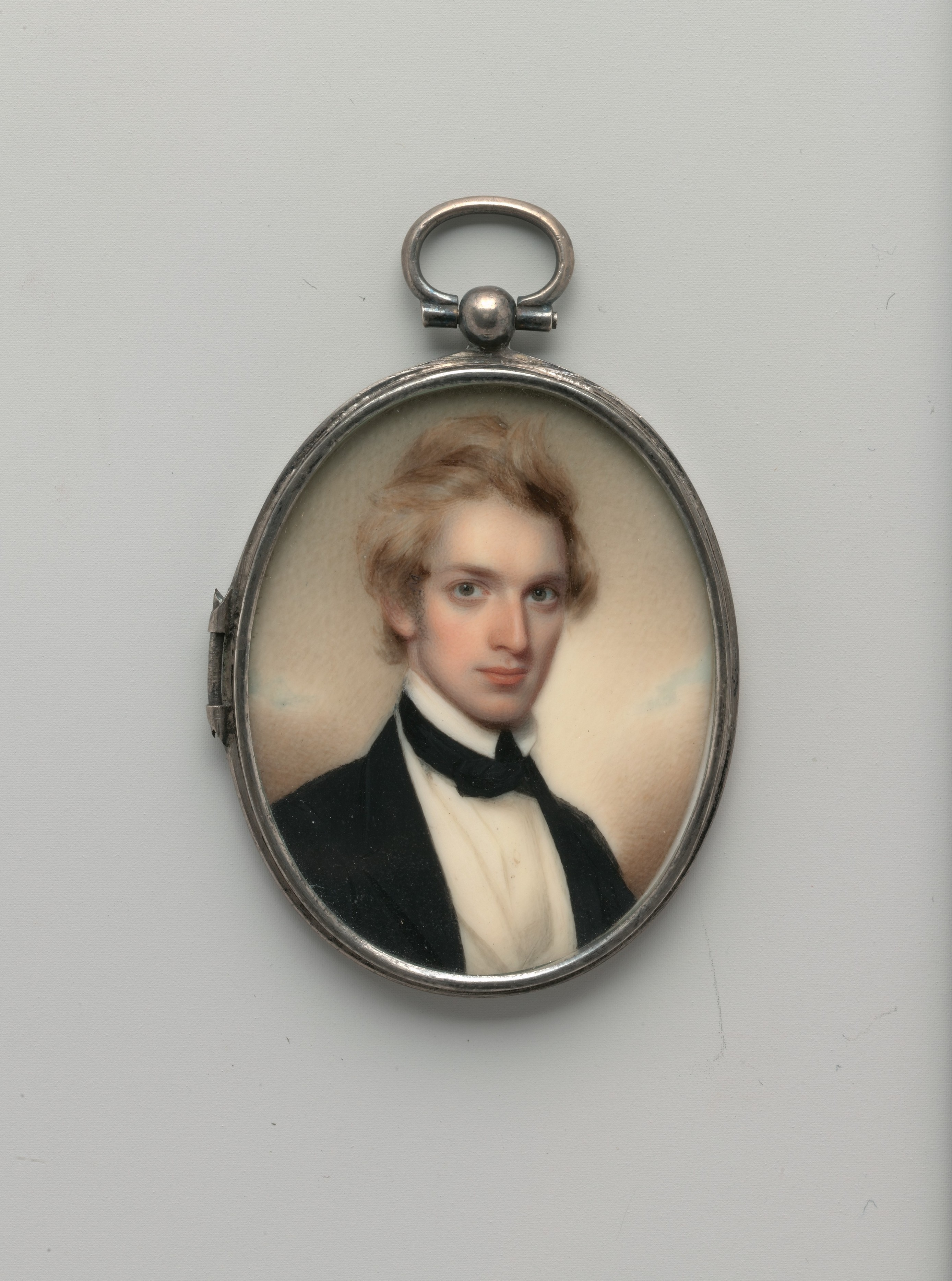 Henry Peters Gray Artist: Henry Colton Shumway (1807–1884) Date: 1842 Medium: Watercolor on ivory Dimensions: 2 1/32 x 1 19/32 in. (5.2 x 4 cm) Classification: Paintings Credit Line: Bequest of Florence de Noyon Gray, 1947 The sitter (1819-1877) was a portraitist and history painter. He sat for Shumway in 1842, the year Gray became an academician at the National Academy of Design.